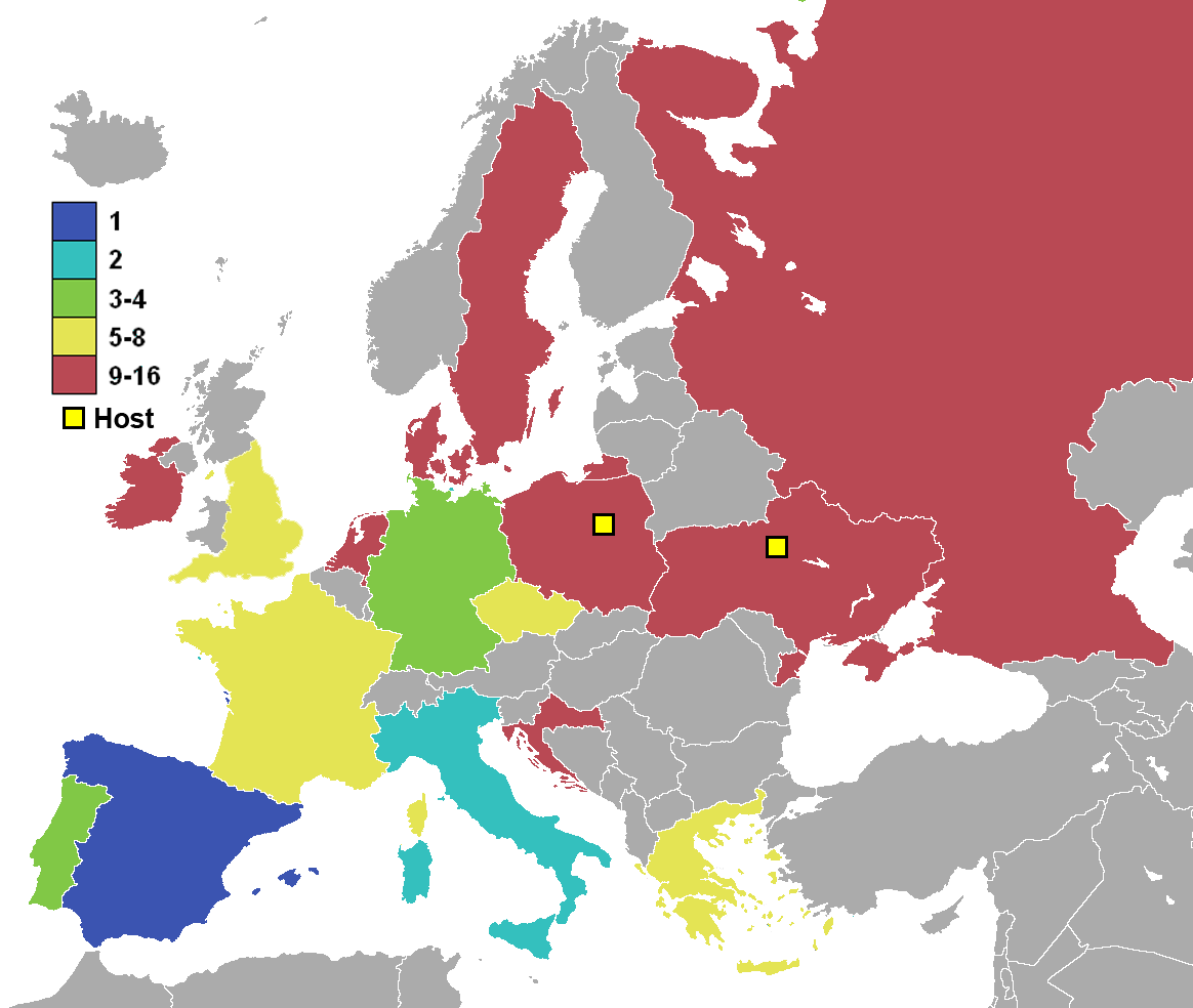 Results of UEFA Euro 2012.